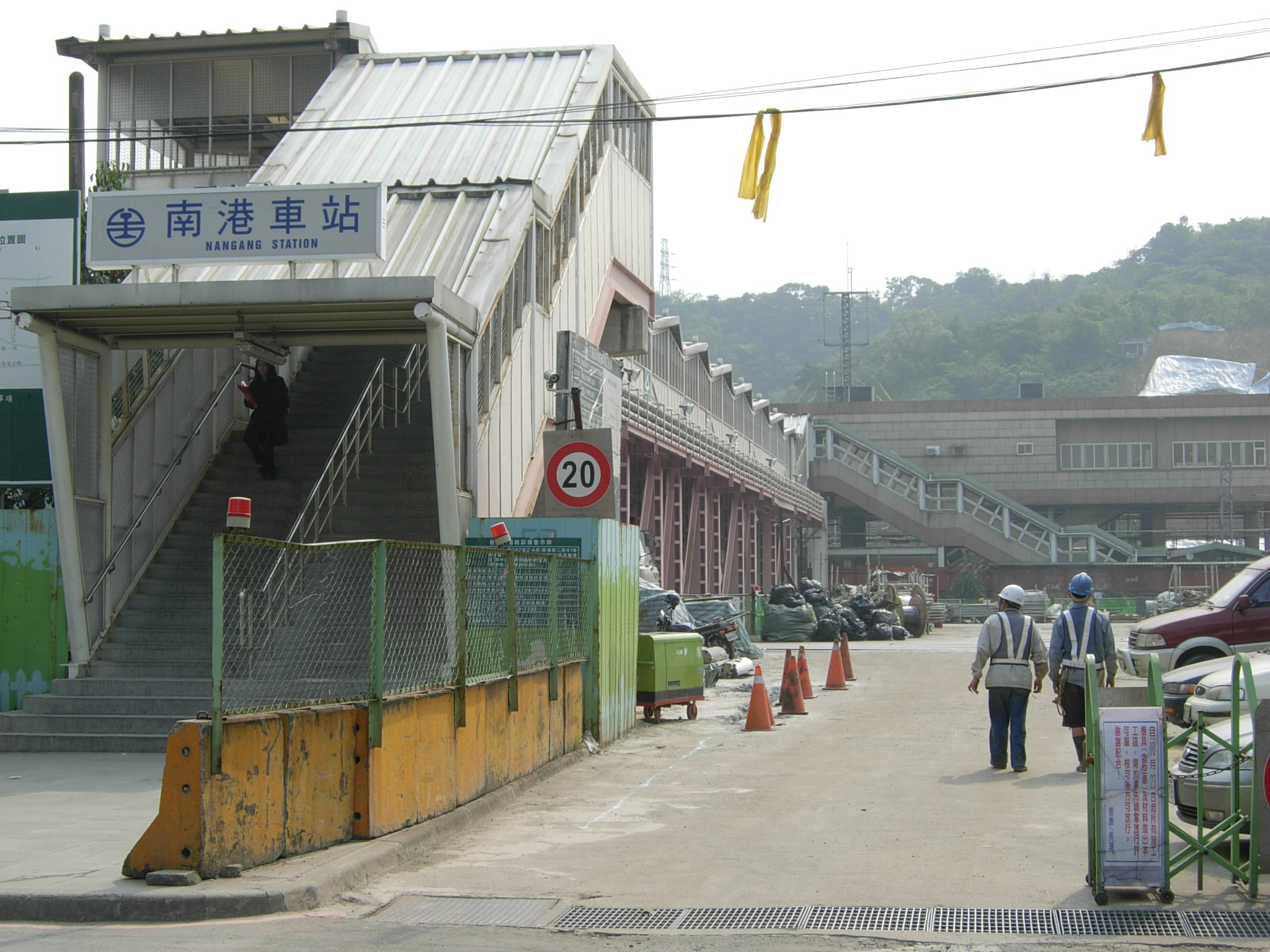 TRA Nangang Station, temporary structure until 2009.